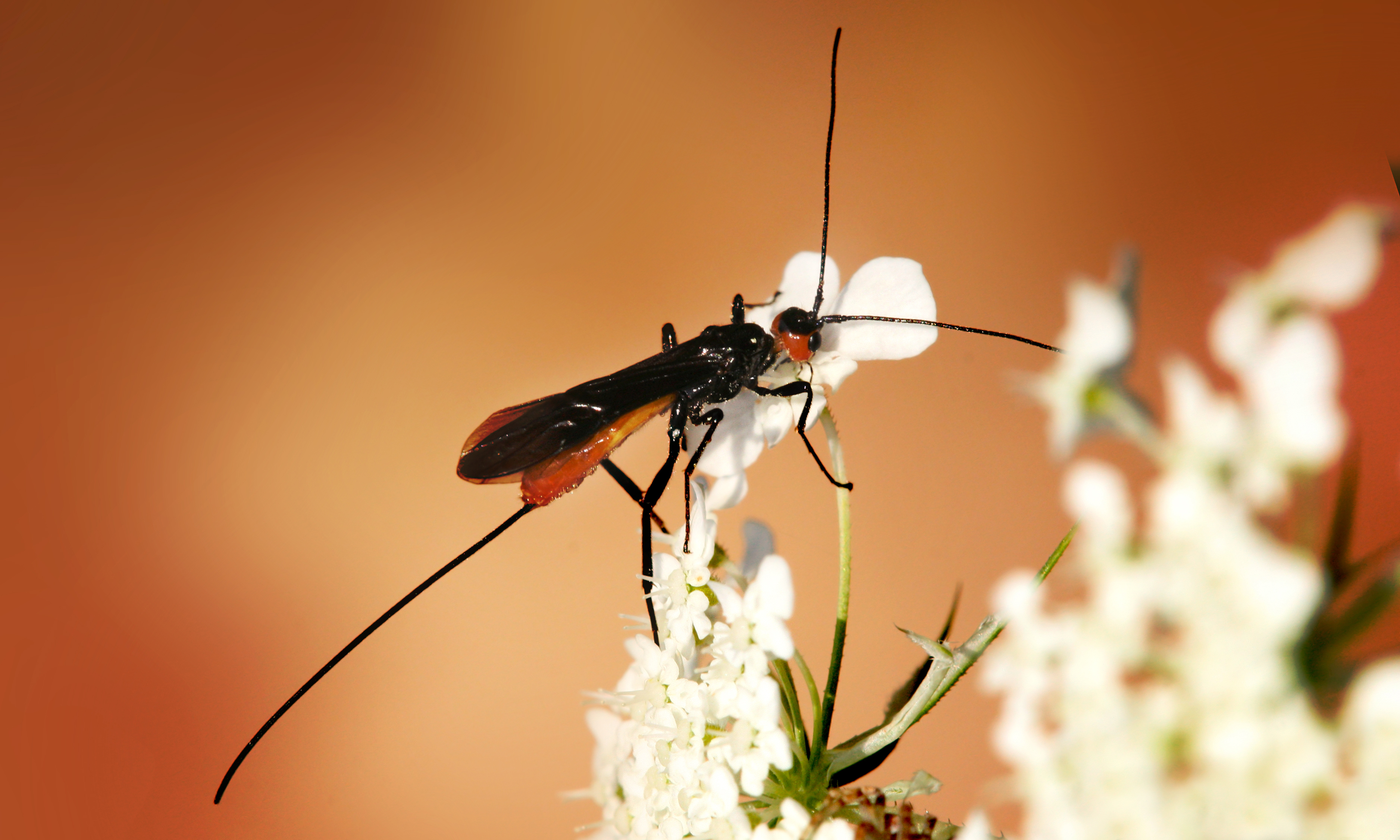 Description: Braconidae is a family of parasitoid wasps and one of the richest family of insects. From the approximate 12,000 described species (the braconids), it is extrapolated that between 40,000 and 50,000 species exist worldwide.As shown it is a species of the genus Atanycolus (Braconinae).